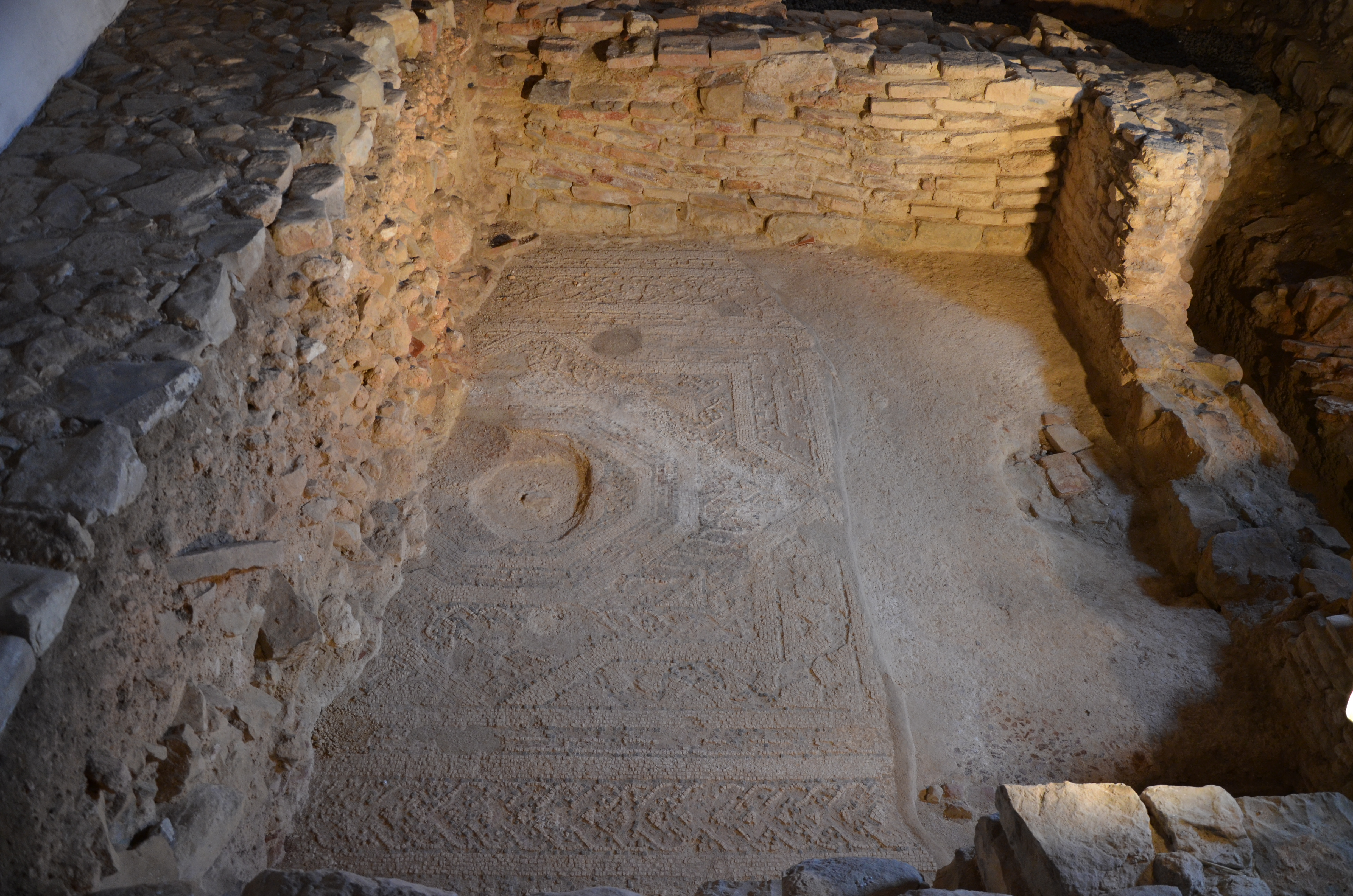 The Roman Ruins of Milreu, a of a luxurious rural villa, transformed into a prosperous farm in the 3rd century, Portugal